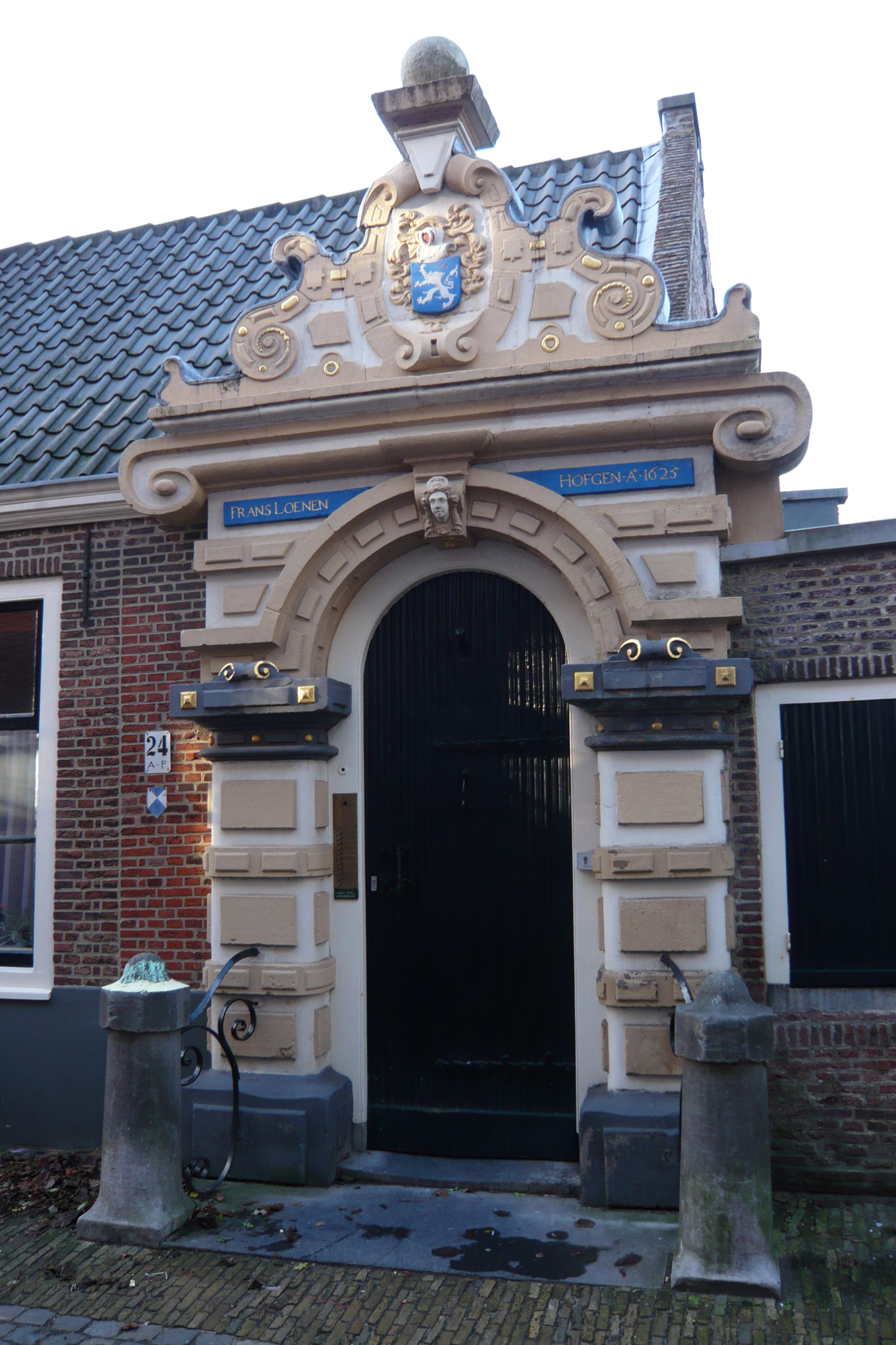 Gate of Frans Loenen Hofje in Haarlem on the Witte Heren straat. Hofje dates from 1625 and was founded in memory of silk merchant Frans Loenen.